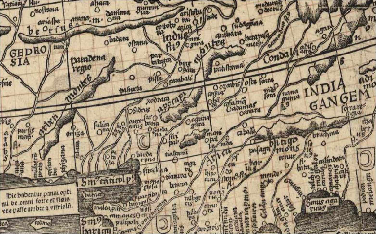 Closeup of the Martin Waldseemüller map showing the city of "Patala"